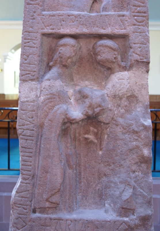 Ruthwell Cross, Ruthwell and Mount Kedar Church, Ruthwell, Dumfries and Galloway, Scotland. North side - detail: Paul and Antony haring bread in the desert.